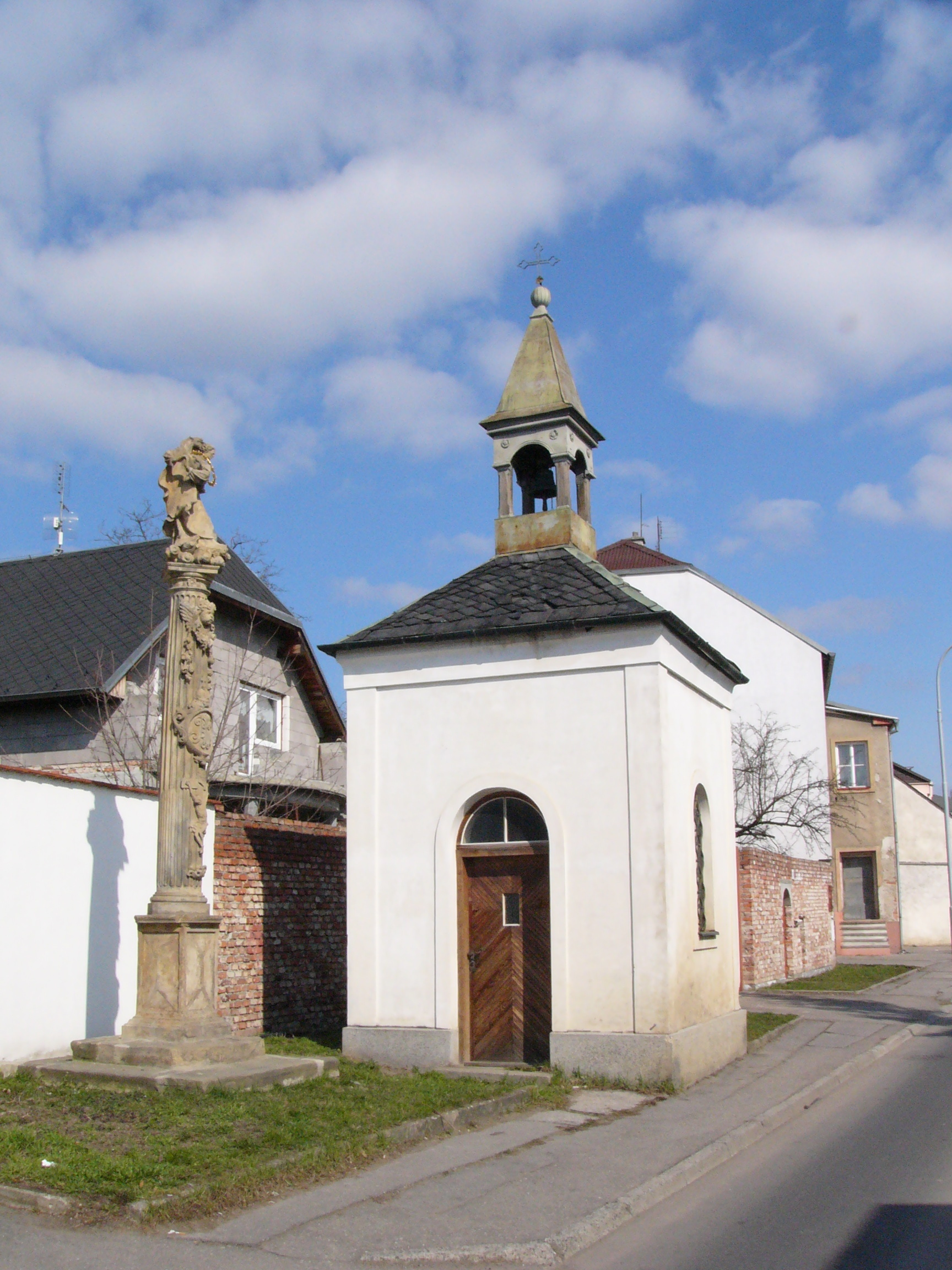 Bell tower and Maria column at the Libušina street in Olomouc.